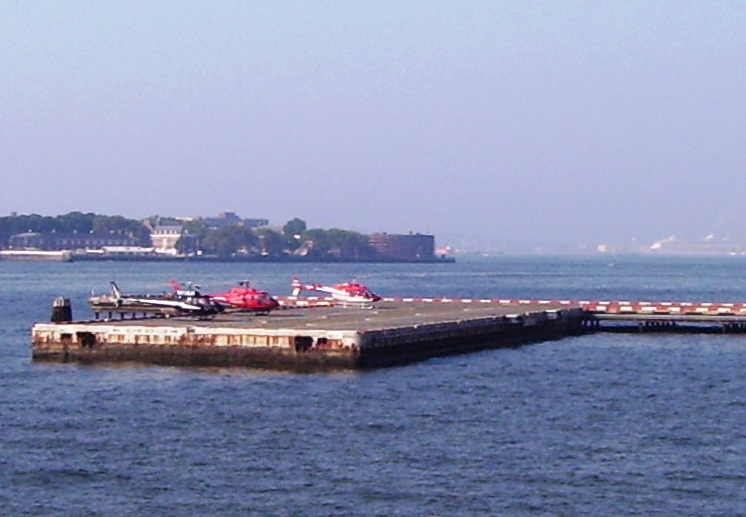 Downtown Manhattan Wall Street Heliport as seen from Pier 11 on the East River.